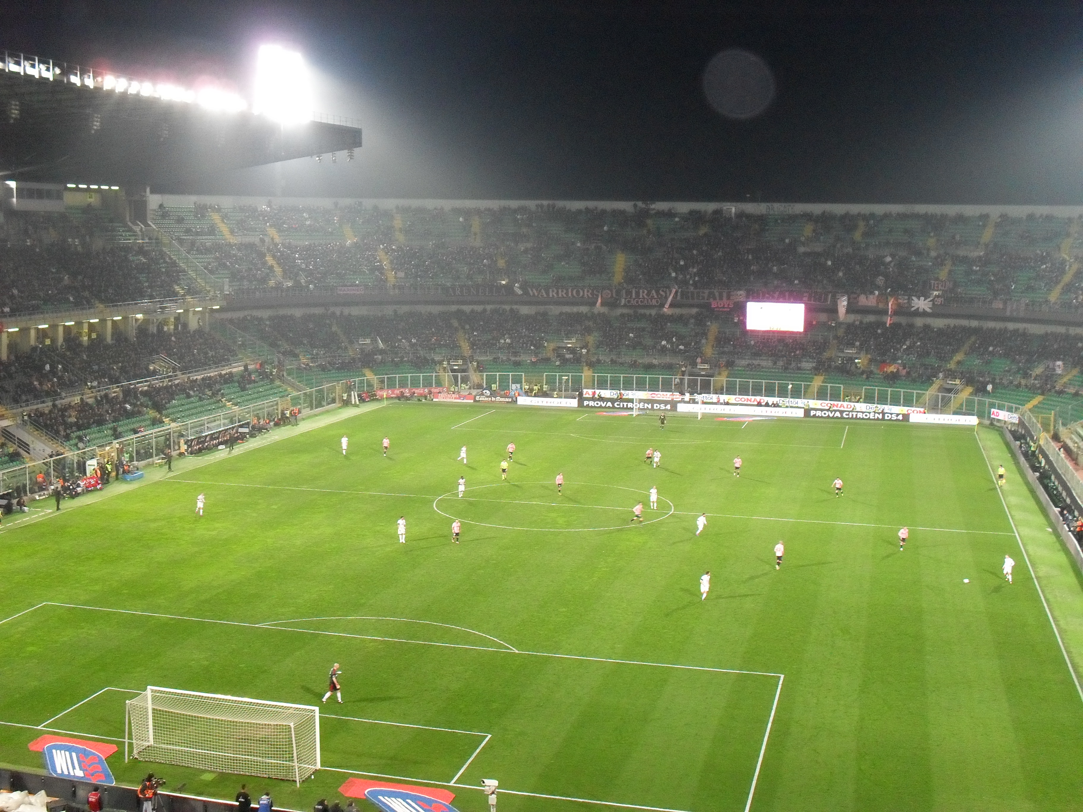 Stadio Barbera Palermo Milan 3 marzo 2012